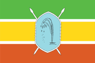 Flag of Baringo County